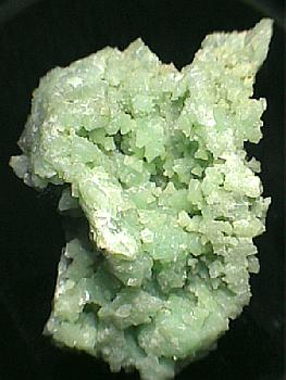 Boracite Locality: Boulby Mine, Loftus, North Yorkshire, England, UK (Locality at ) A different habit from the others here, with duller crystals of larger size (to 5mm) and sharper trigonal form, perched on matrix of massive boracite seam filling. A VERY rich, large, and showy specimen! 7 x 5 x 4 cm